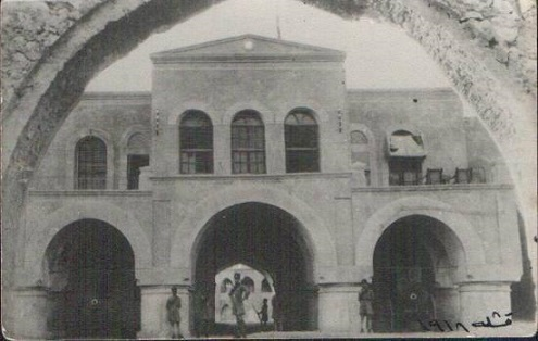 old photo To Qishala of Kirkuk In 1917